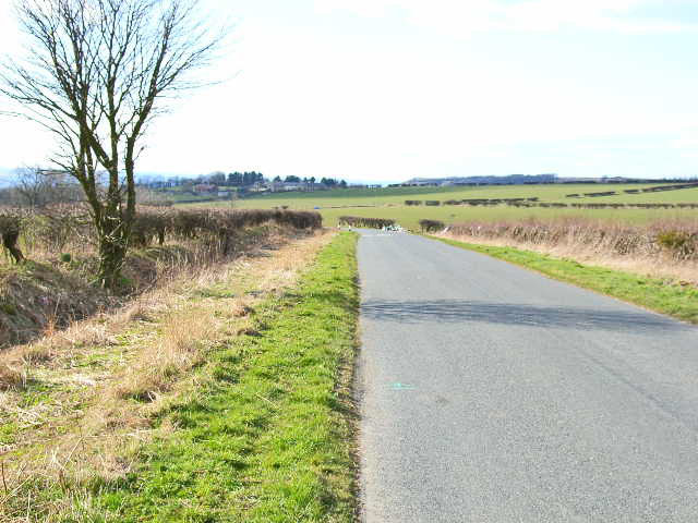 NCN 14, near Haswell Moor Farm On the National Cycle Network